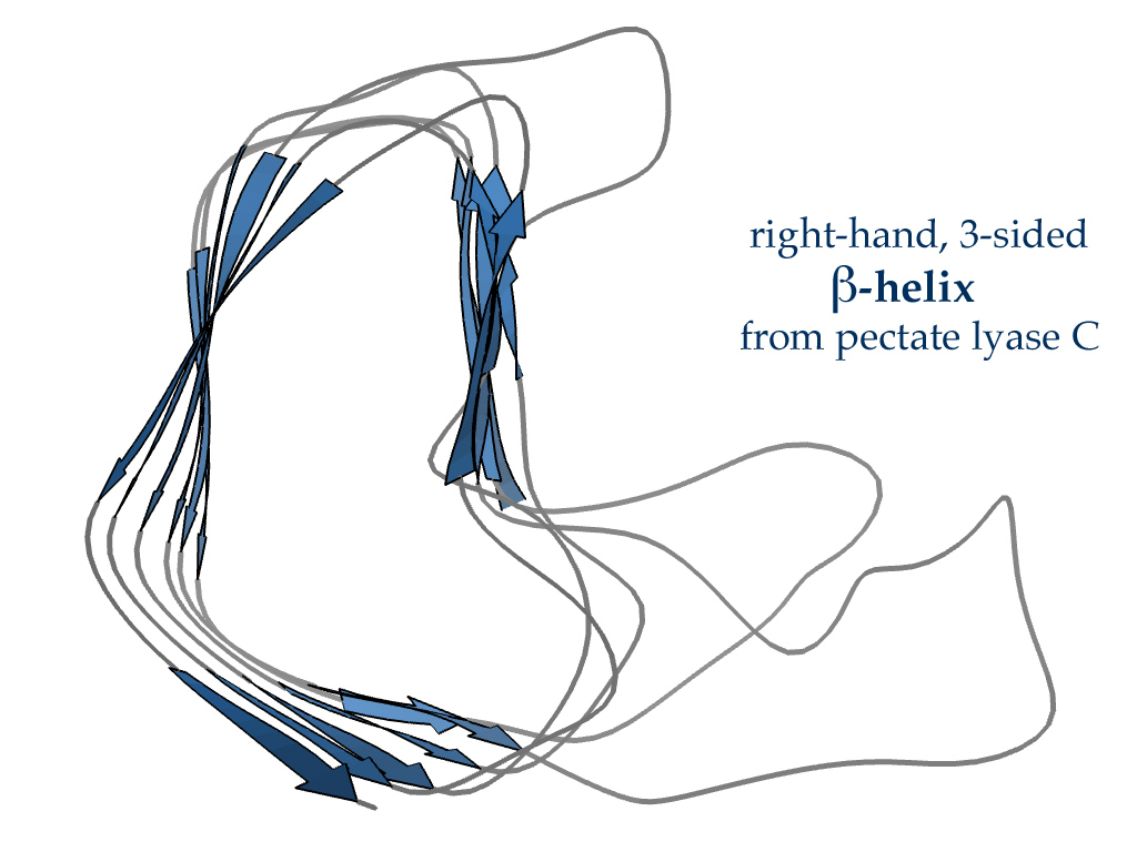 Righthanded, 3-sided beta helix fold in pectate lyase C (6 turns from the center of the enzyme subunit). Ribbon diagram, viewed end-on down the beta-helix axis. Blue arrows show chain direction in the beta-strands of the three parallel beta sheets; the chain spirals up toward the viewer in a counter-clockwise direction. From PDB file 2PEC, visualized in KiNG.